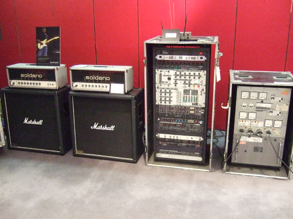 This is the famous picture I took of Eric Claptons FX Soldano/Cornish system when being at the Bonhams auction in 2011. Since then it has been uploaded on various websites.